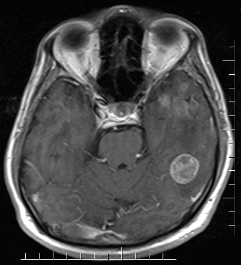 Brain MRI of 39YO man with lung cancer metastasis T1 CE